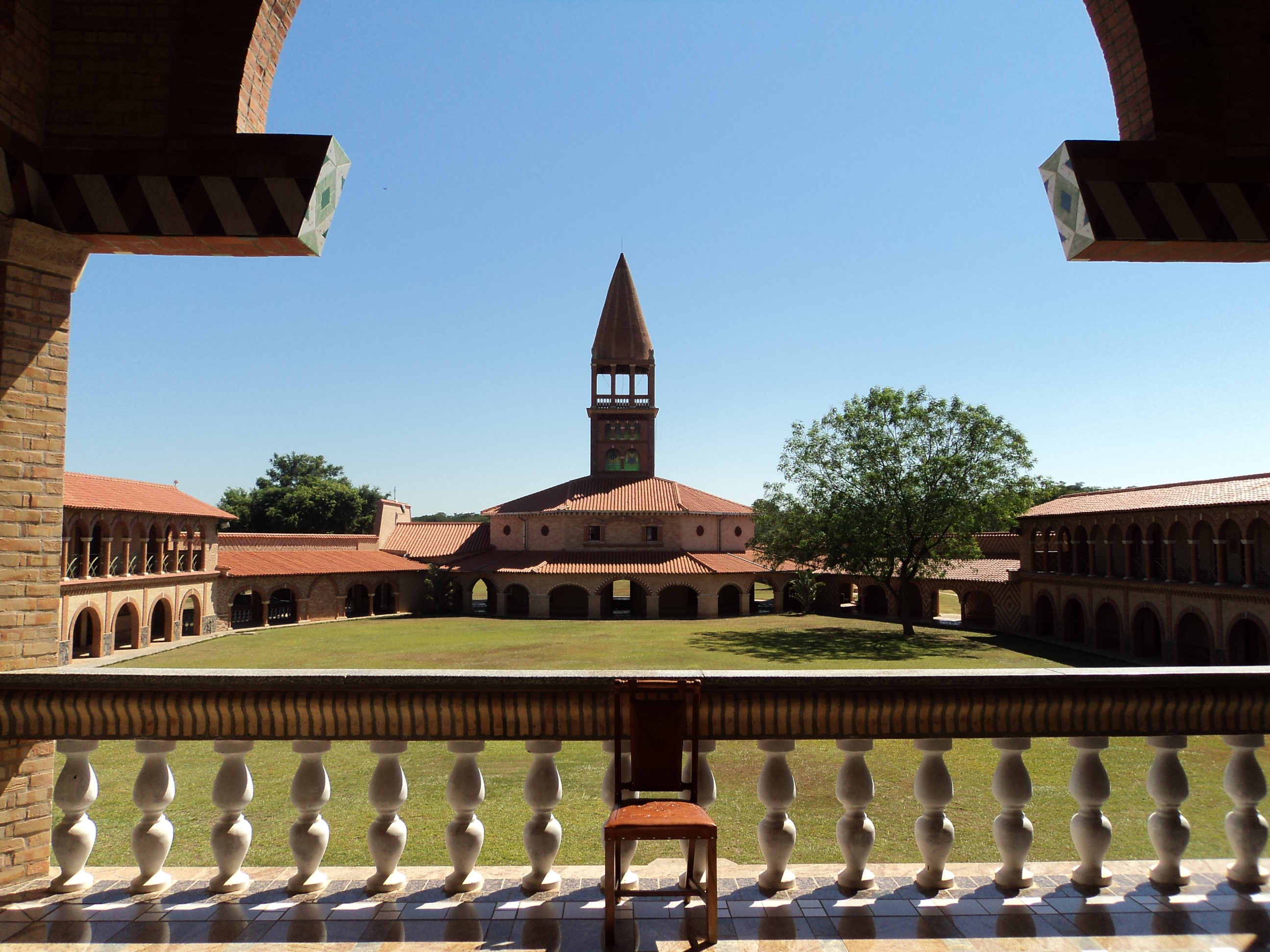 Marianela patio in Atyrá, Paraguay